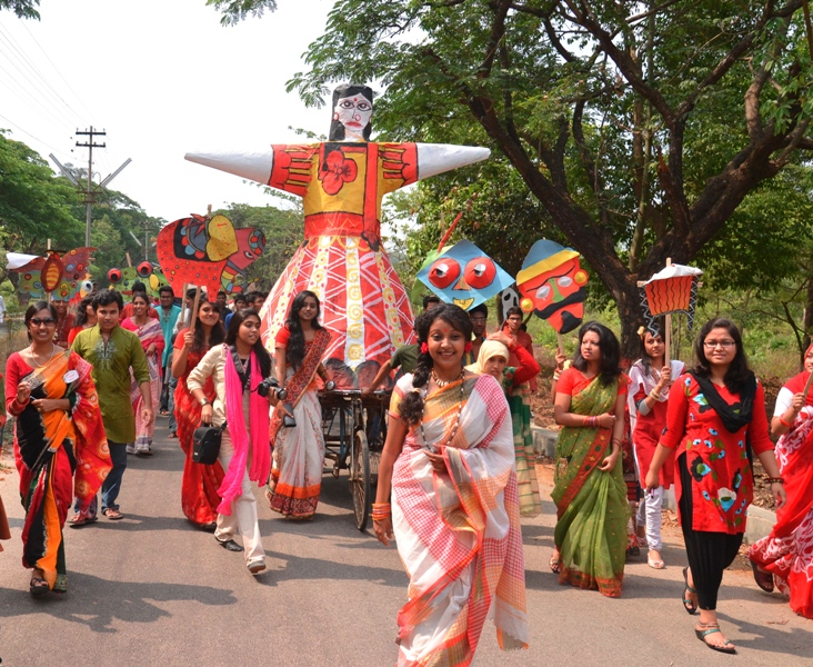 14th April, Pahela Boishakh in CUET